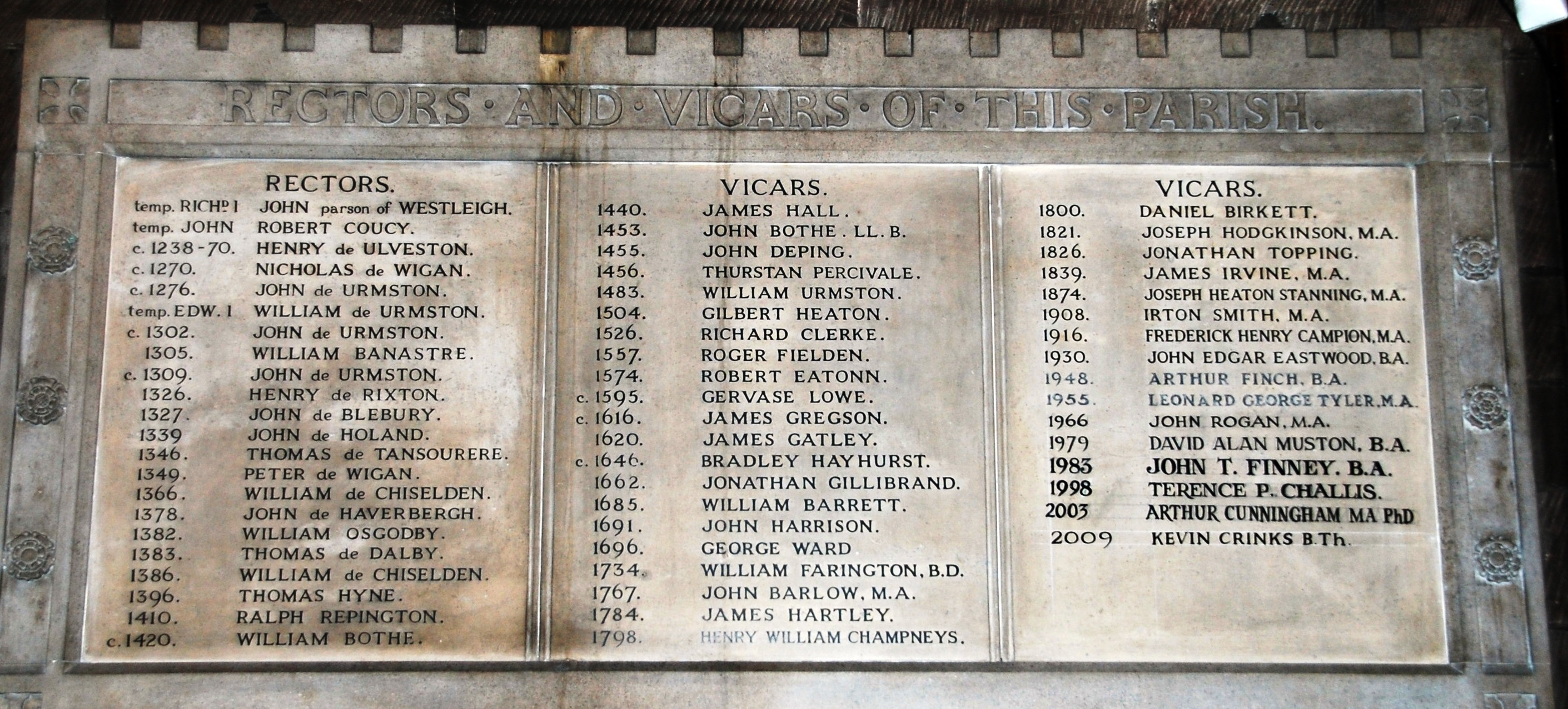 Plaque recording Rectors and Vicars of Leigh